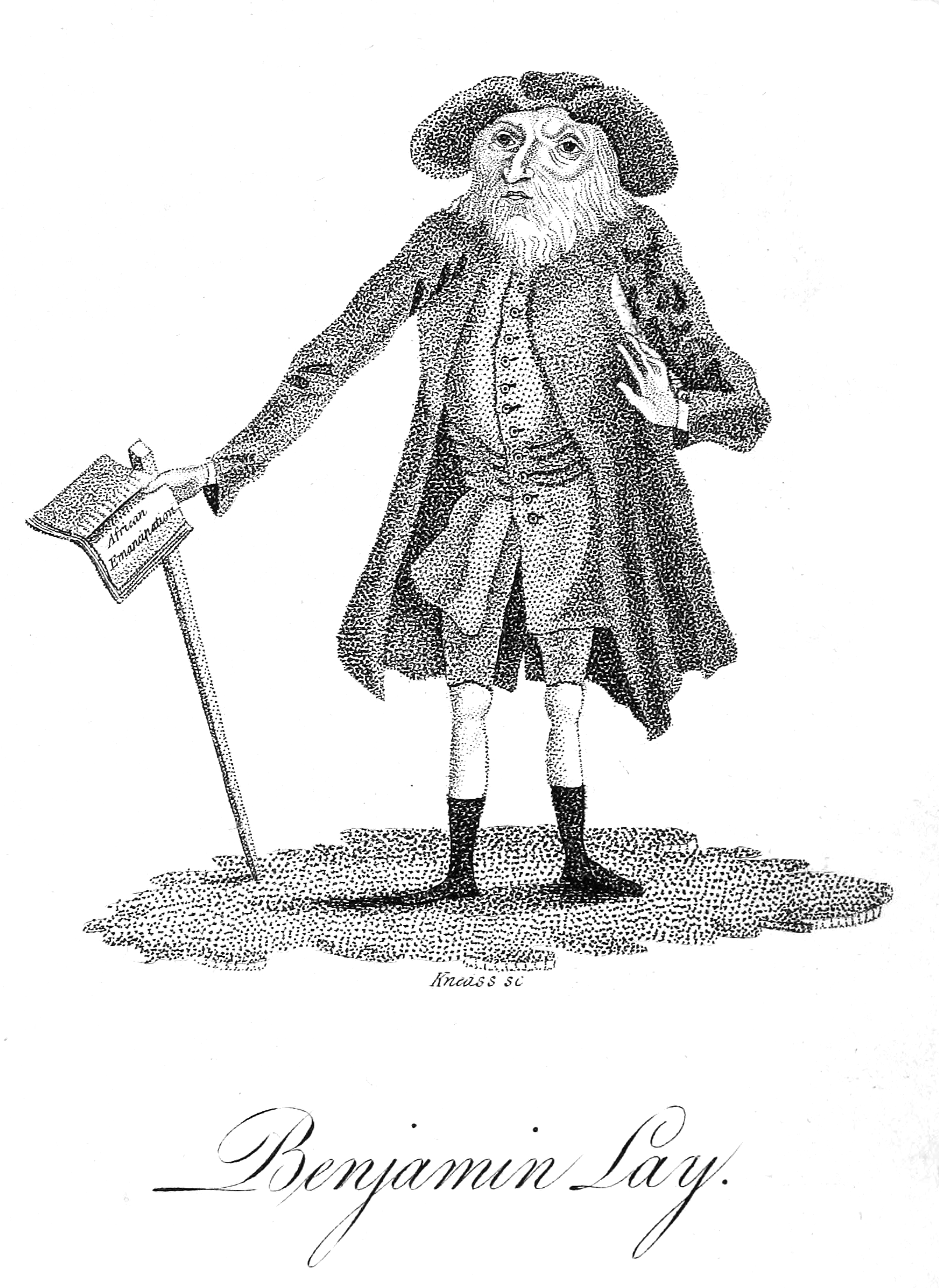 Frontispiece from Memoirs of the lives of Benjamin Lay and Ralph Sandiford